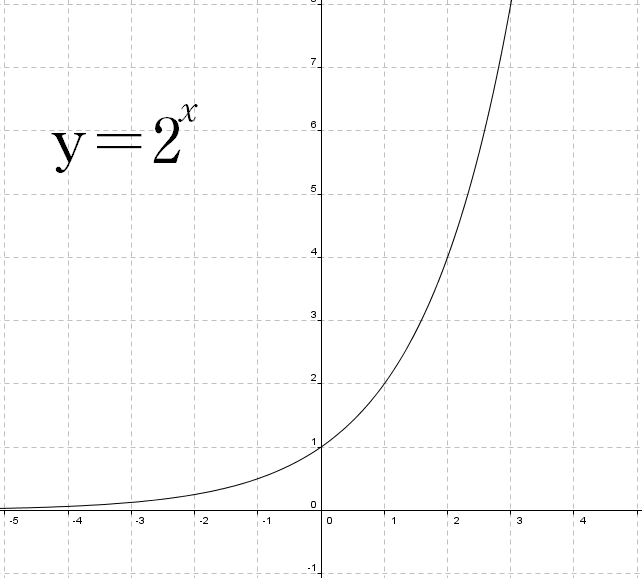 It is 2^x function graph.